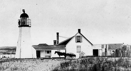 Race Point Lighthouse, Provincetown, Cape Cod, Massachusetts, USA, original 1816 tower